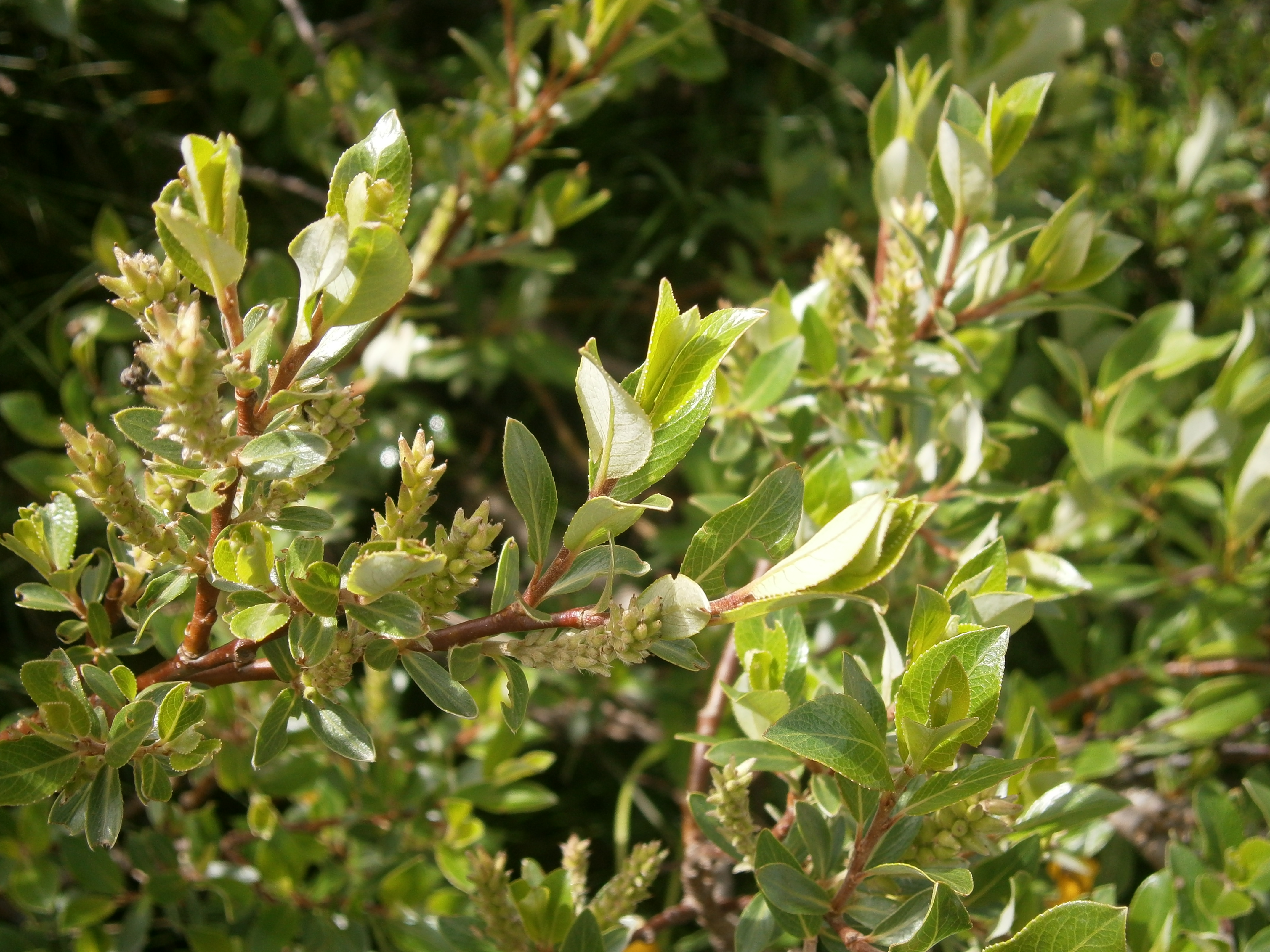 Salix foetida